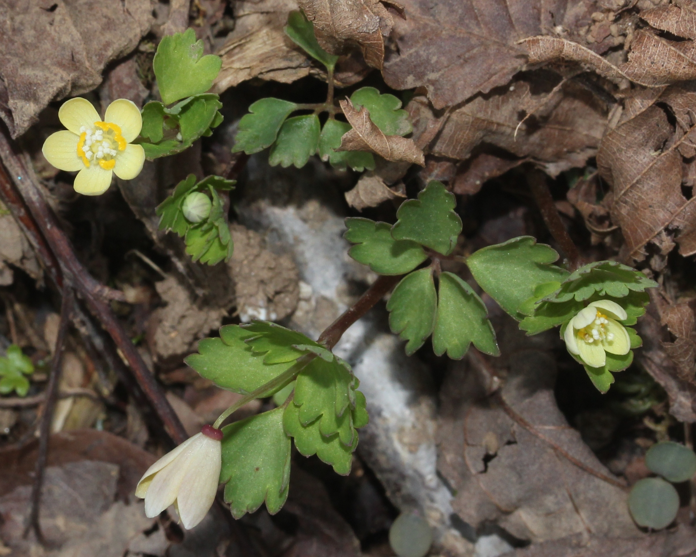 Dichocarpum trachyspermum in Mount Fujiwara, Inabe, Mie prefecture, Japan.